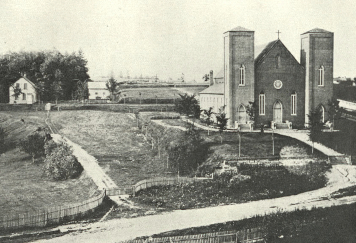 St. Francis Xavier Church in Winooski, Vermont in 1876 (before the construction of its steeples).